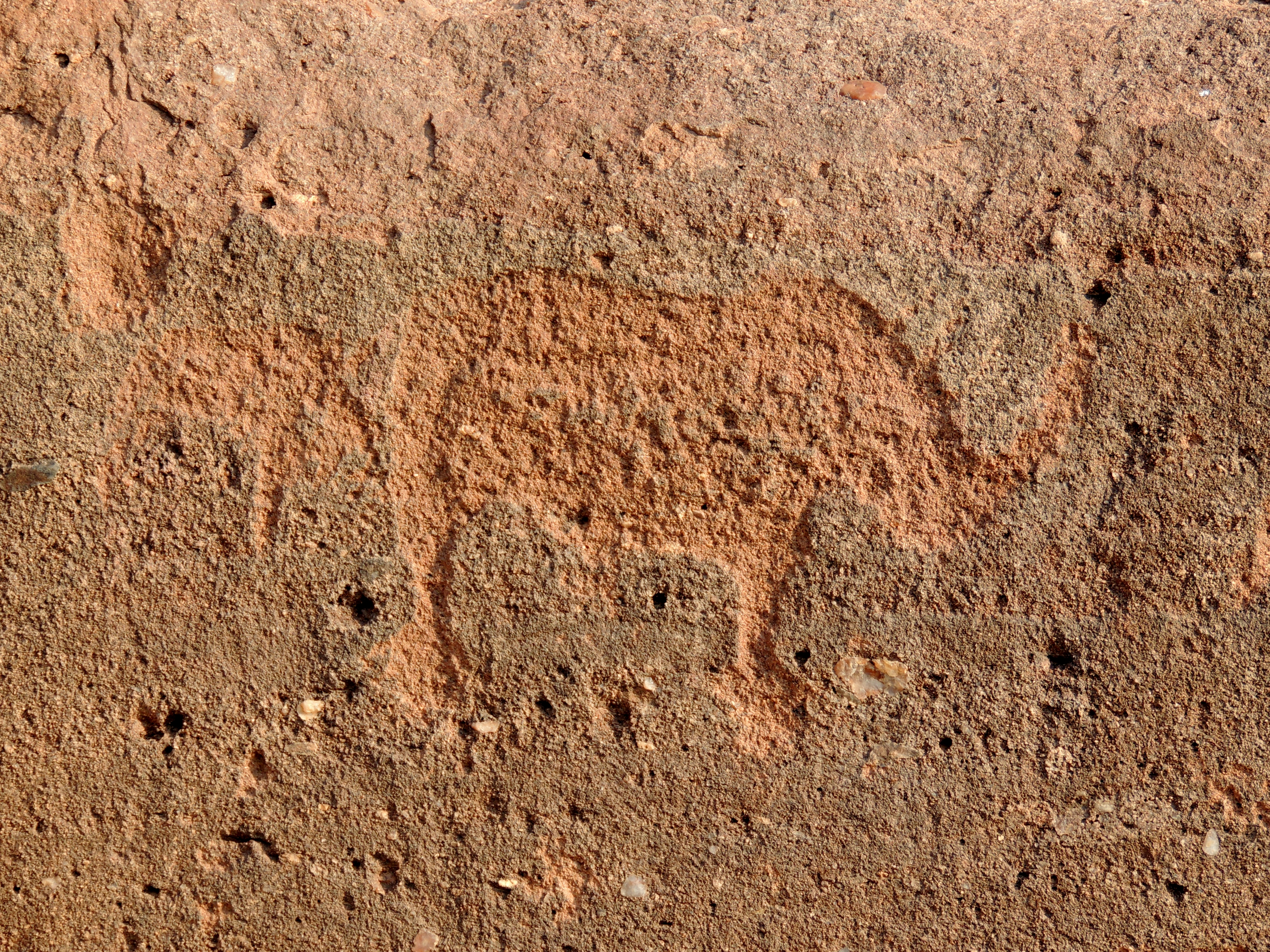 Twyfelfontein 1